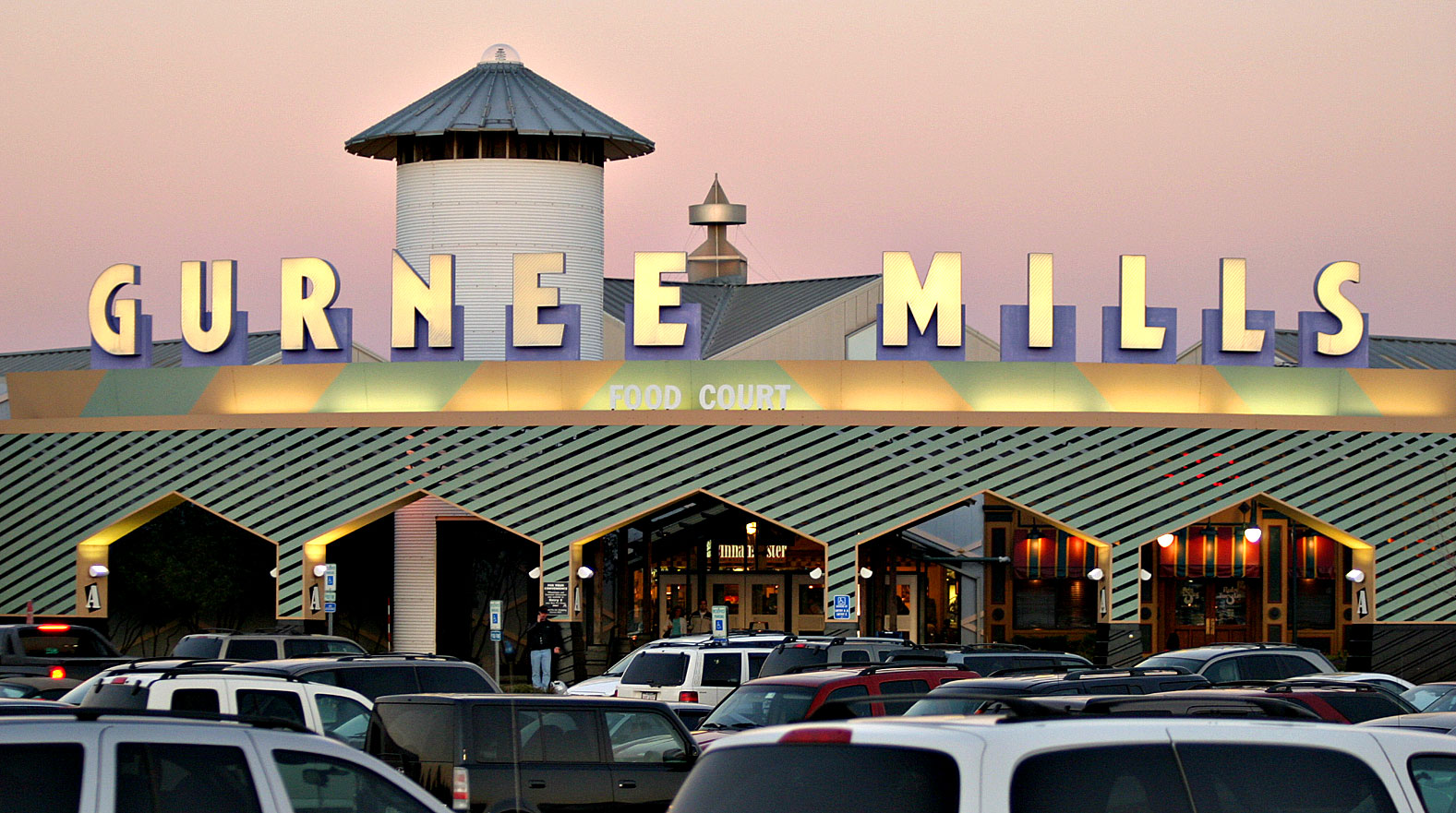 Gurnee Mills, sunset 09/30/05